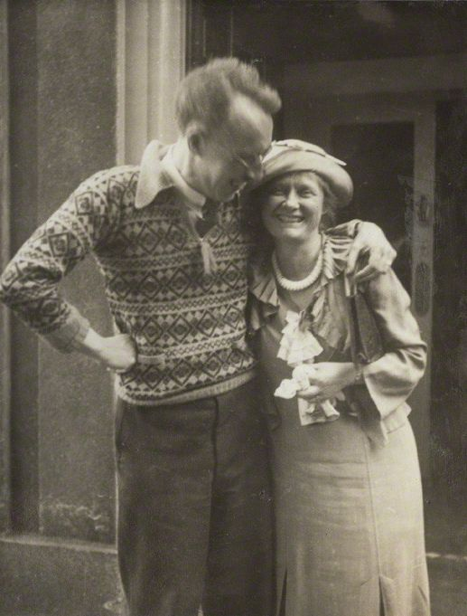 Signe Toksvig with Frank O'Connor by Lady Ottoline Morrell, vintage snapshot print, 1936